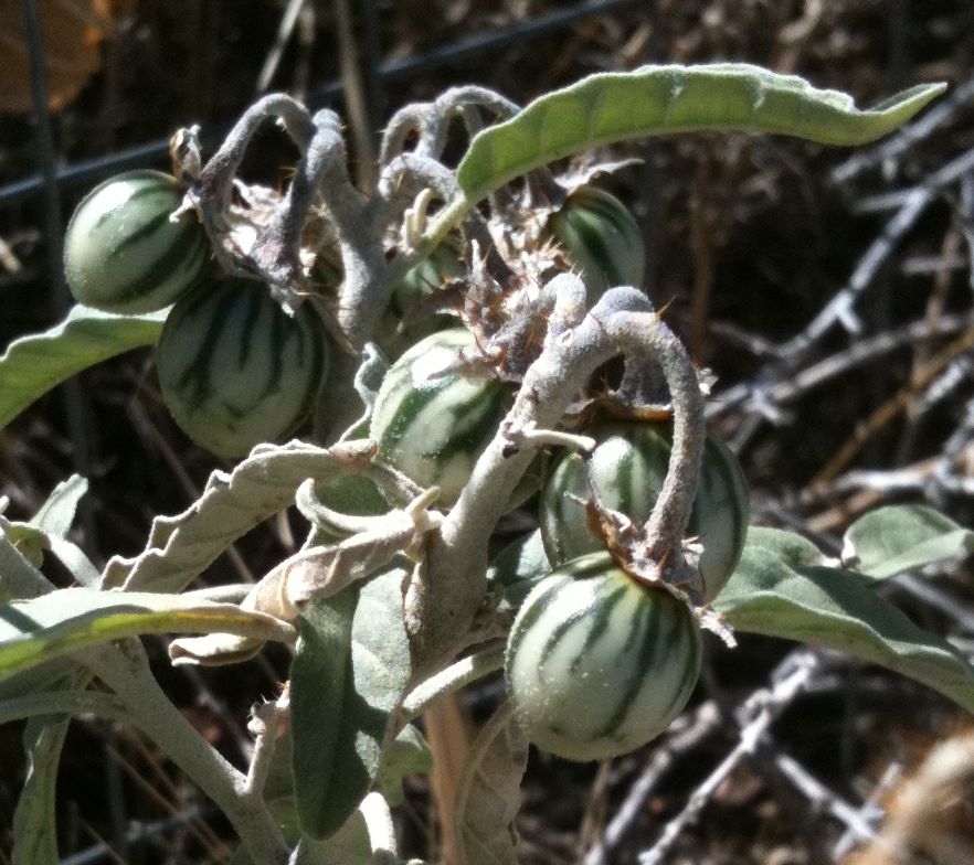 Closeup of unripe Solanum elaeagnifolium berries